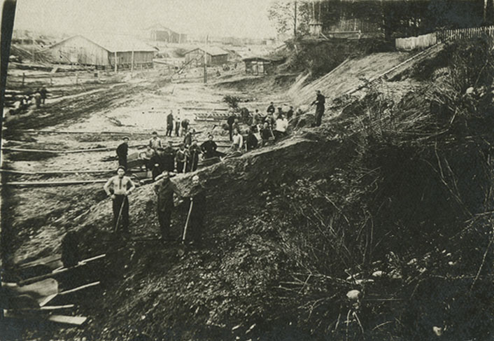 Gulag work